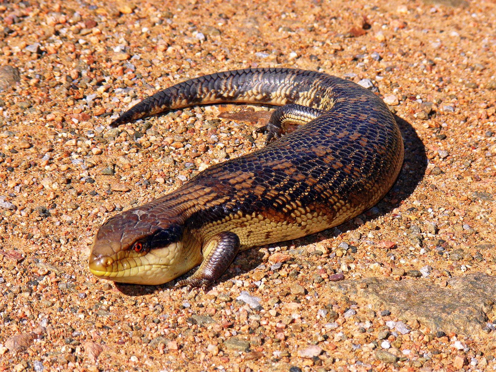 Common Blue-tongued Skink (Tiliqua s. scincoides), basking on open sandy ground.